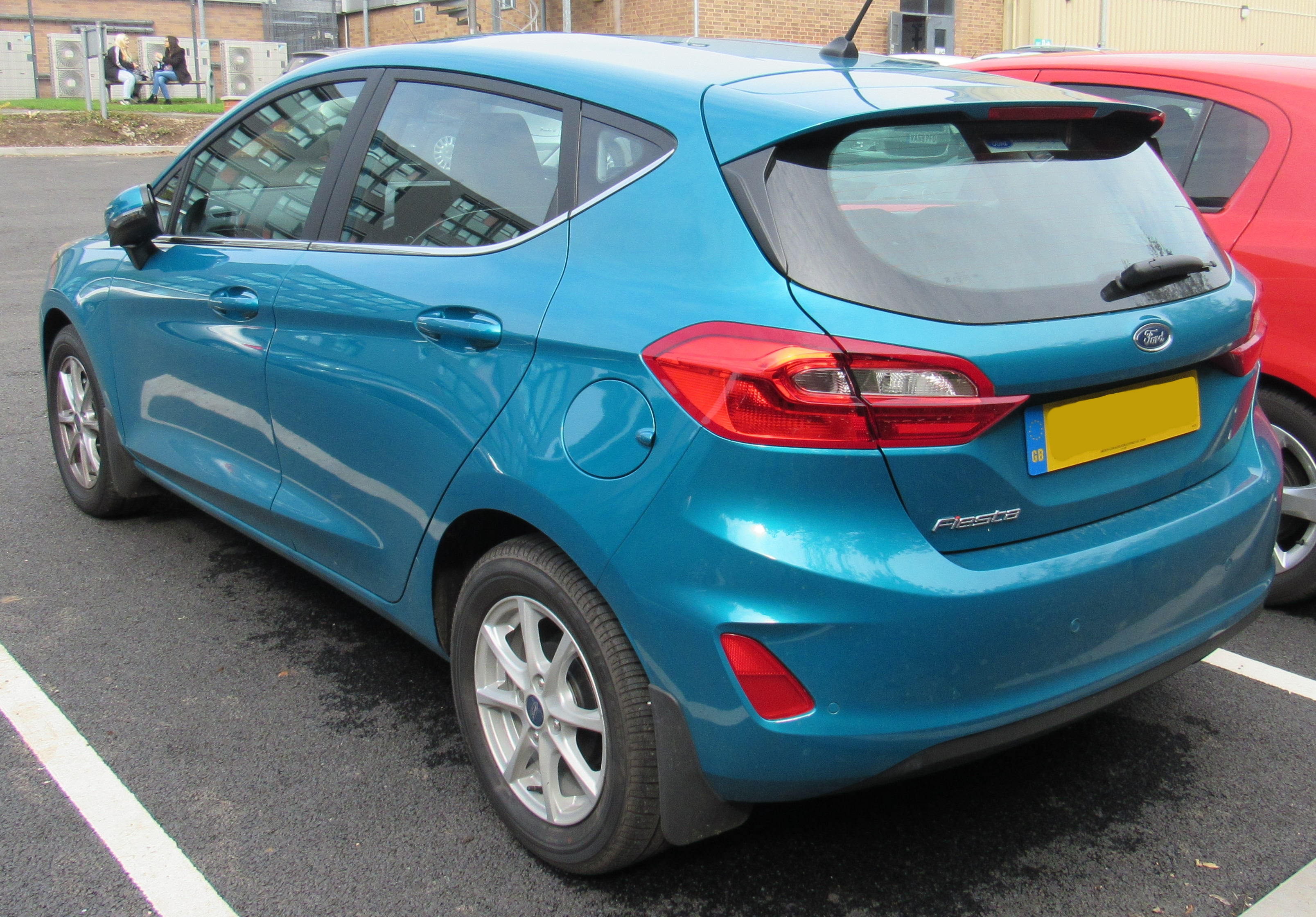 2017 Fiesta Zetec Turbo 1.0 Rear Taken in Leamington Spa